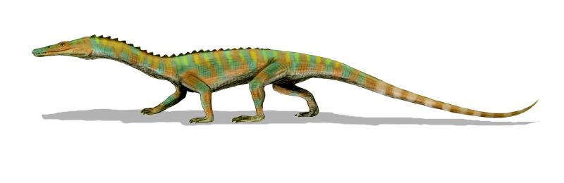 Doswellia kaltenbachi, an archosaur from the Upper Triassic of North America, pencil drawing (after Weems, 1980)